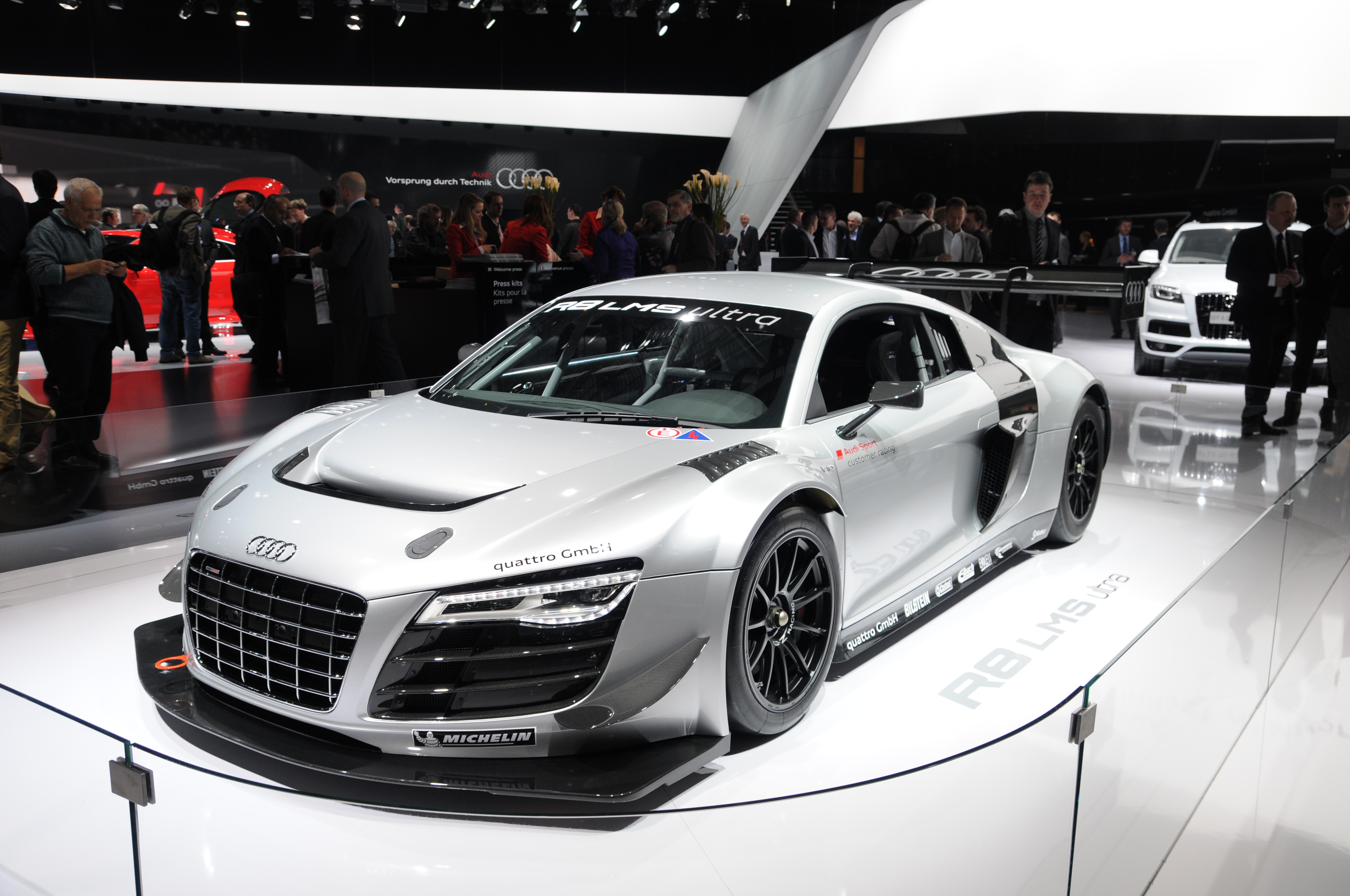 Geneva Motor Show 2013 (photos taken on the first press day)